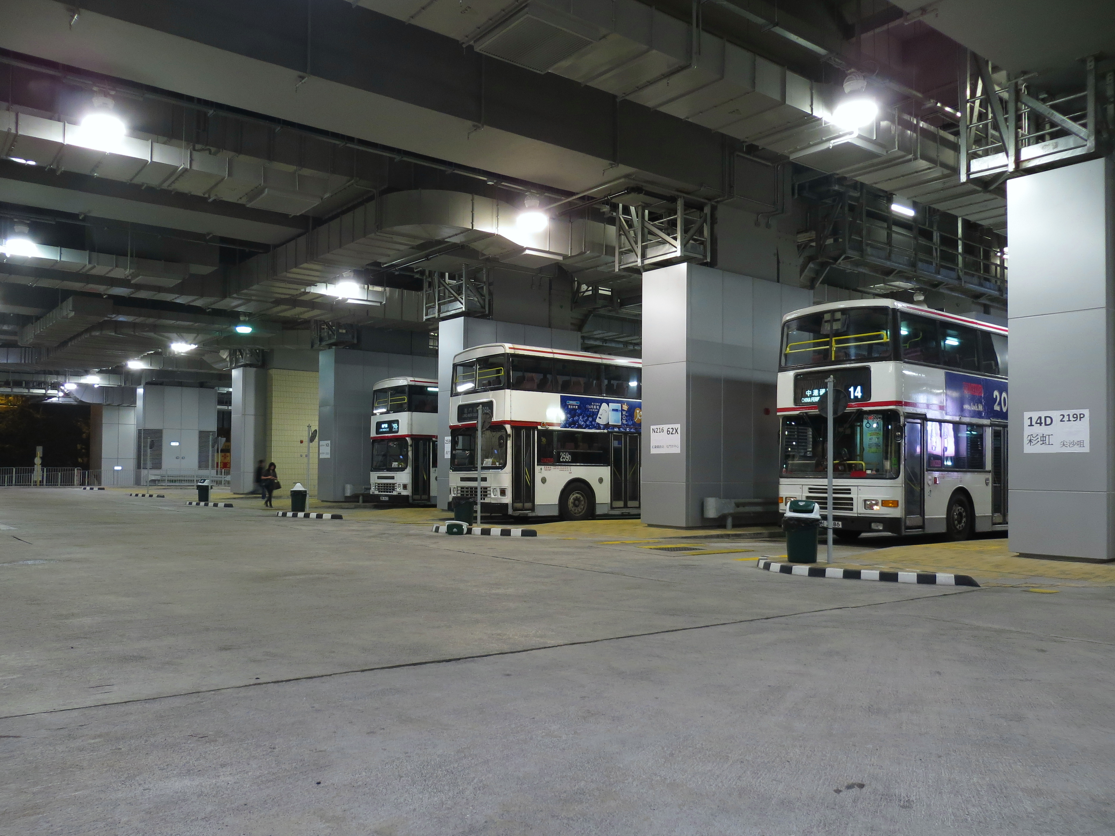 Yau Tong Public Transport Interchange, Yau Tong, Kowloon, Hong Kong.